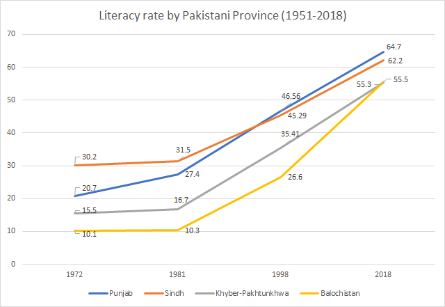 Literacy rate by Pakistani Province 1951-2018